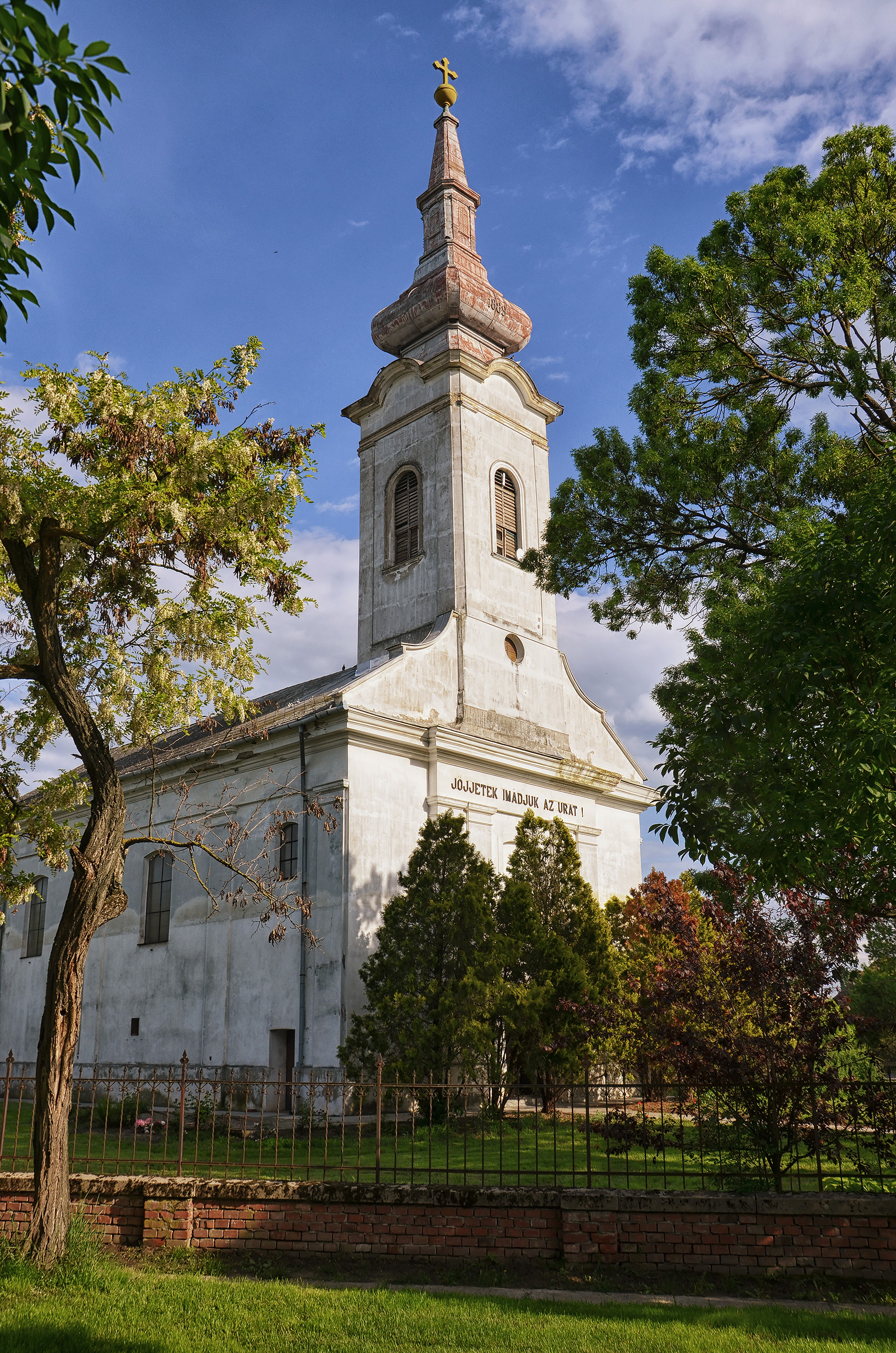 The Roman Catholic church in Dévaványa, Hungary